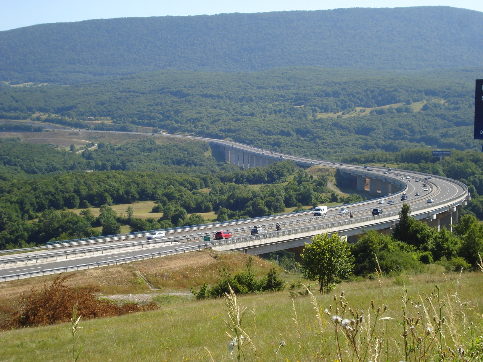 Croatian A1 Highway (Zagreb-Split-Dubrovnik) near Jezerane